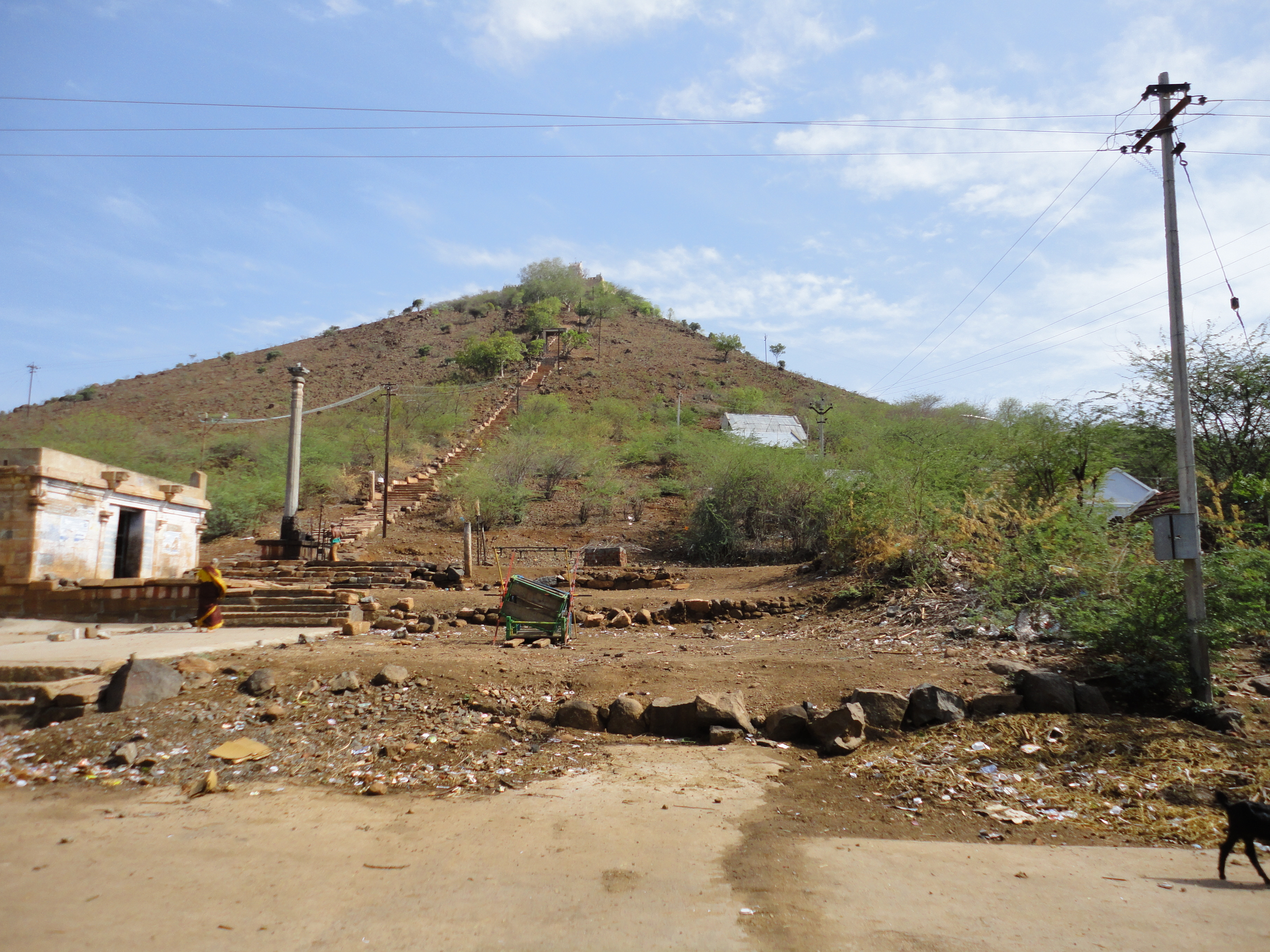 Eengoimalai Maragadachaleswarar Temple திருஈங்கோய்மலை கோயில்